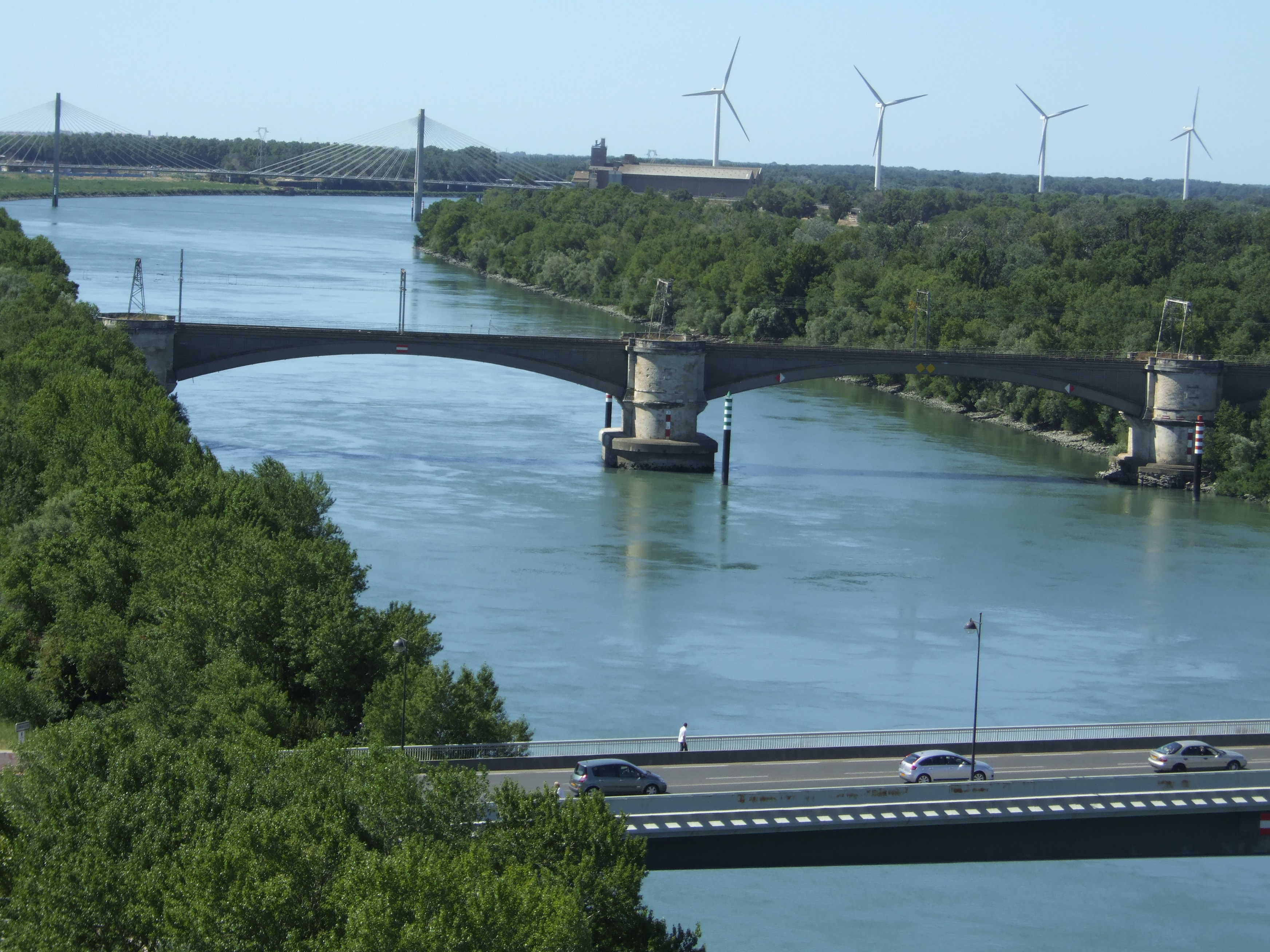 The river Rhone at Tarascon (Provence - France)